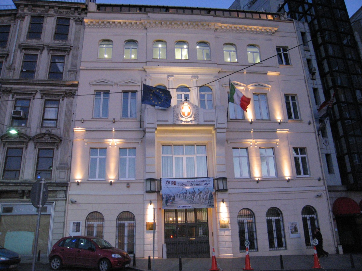 Italian Cultural Institute (IIC), former Embassy of the Kingdom of Italy to the Ottoman Empire until 1918 (when it moved to Venedik Sarayi and later to Ankara), in Tepebaşı quarter of Istanbul, Turkey.